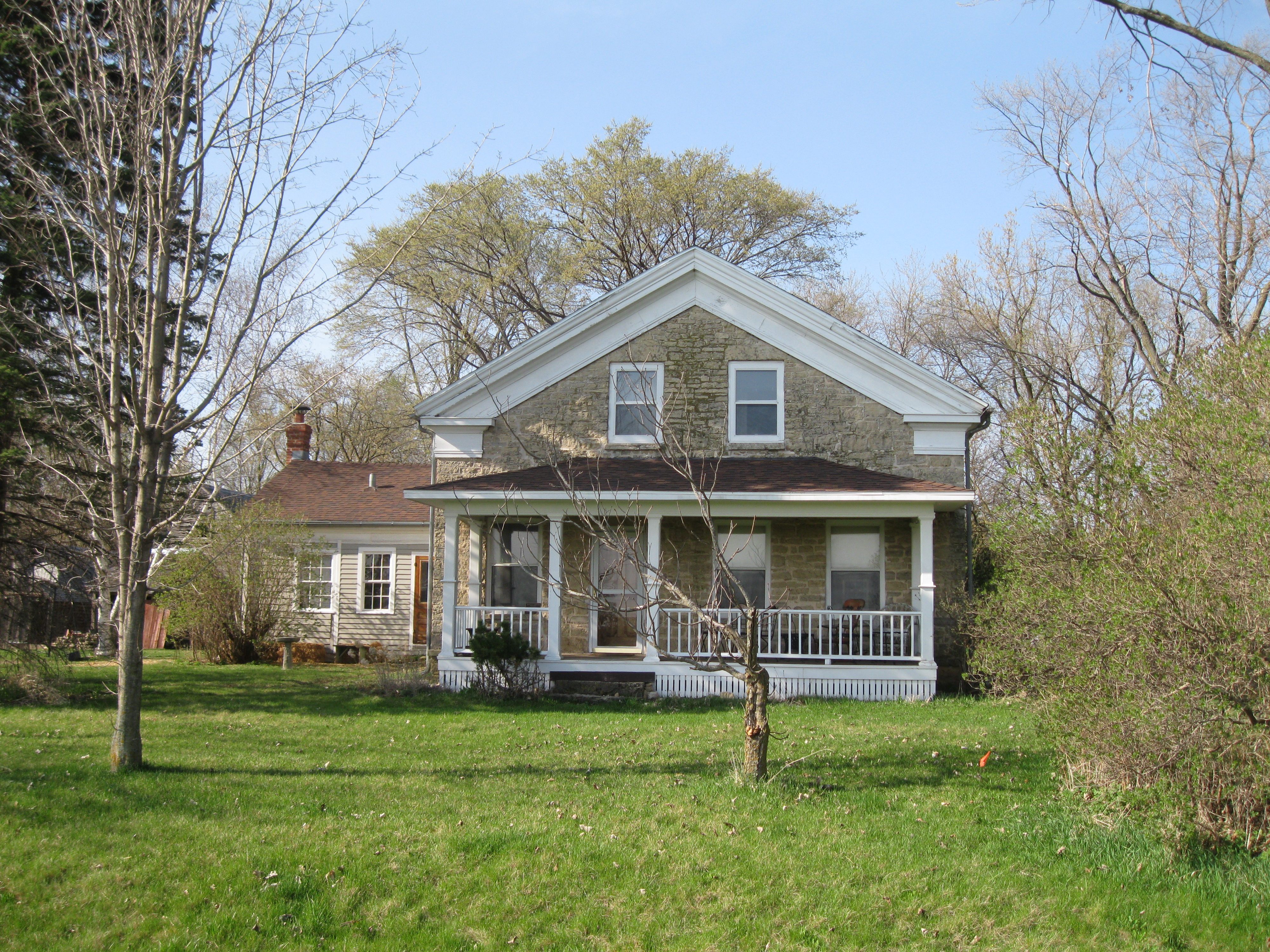 The Sereno W. Graves House at 4006 Old Stage Road in Rutland, Wisconsin.